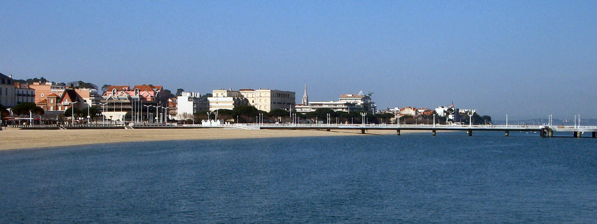 The town of Arcachon, Gironde, France